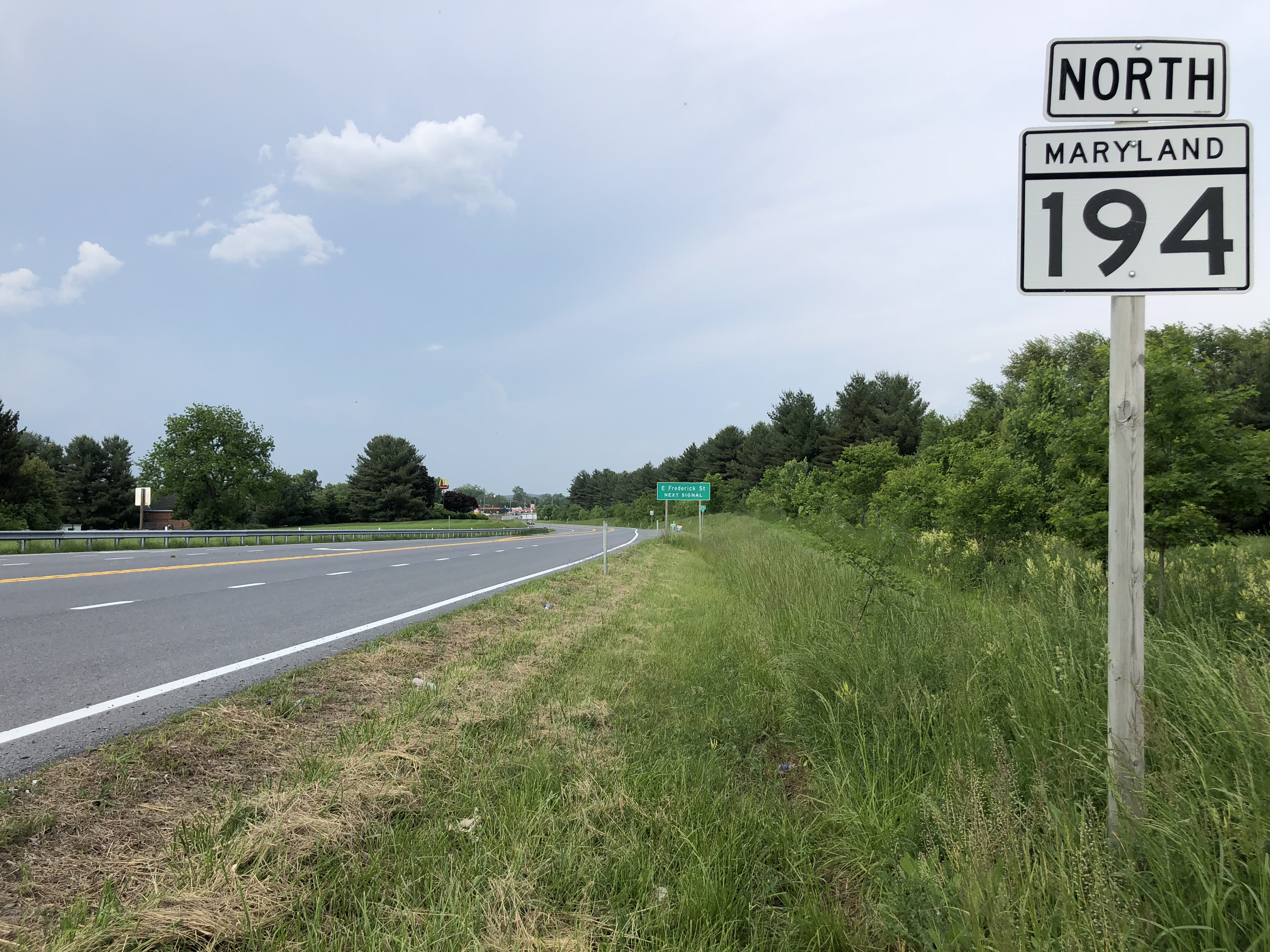 View north along Maryland State Route 194 (Woodsboro Pike) just north of Crum Road in Walkersville, Frederick County, Maryland